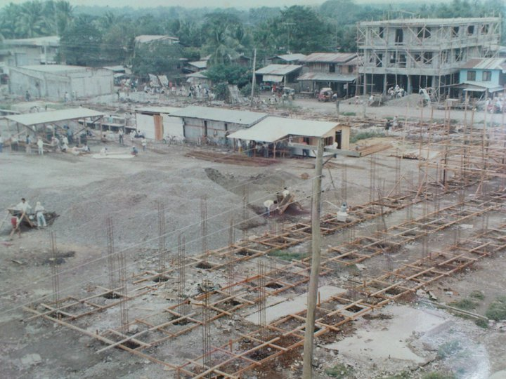 The Making of Roxas Public Market